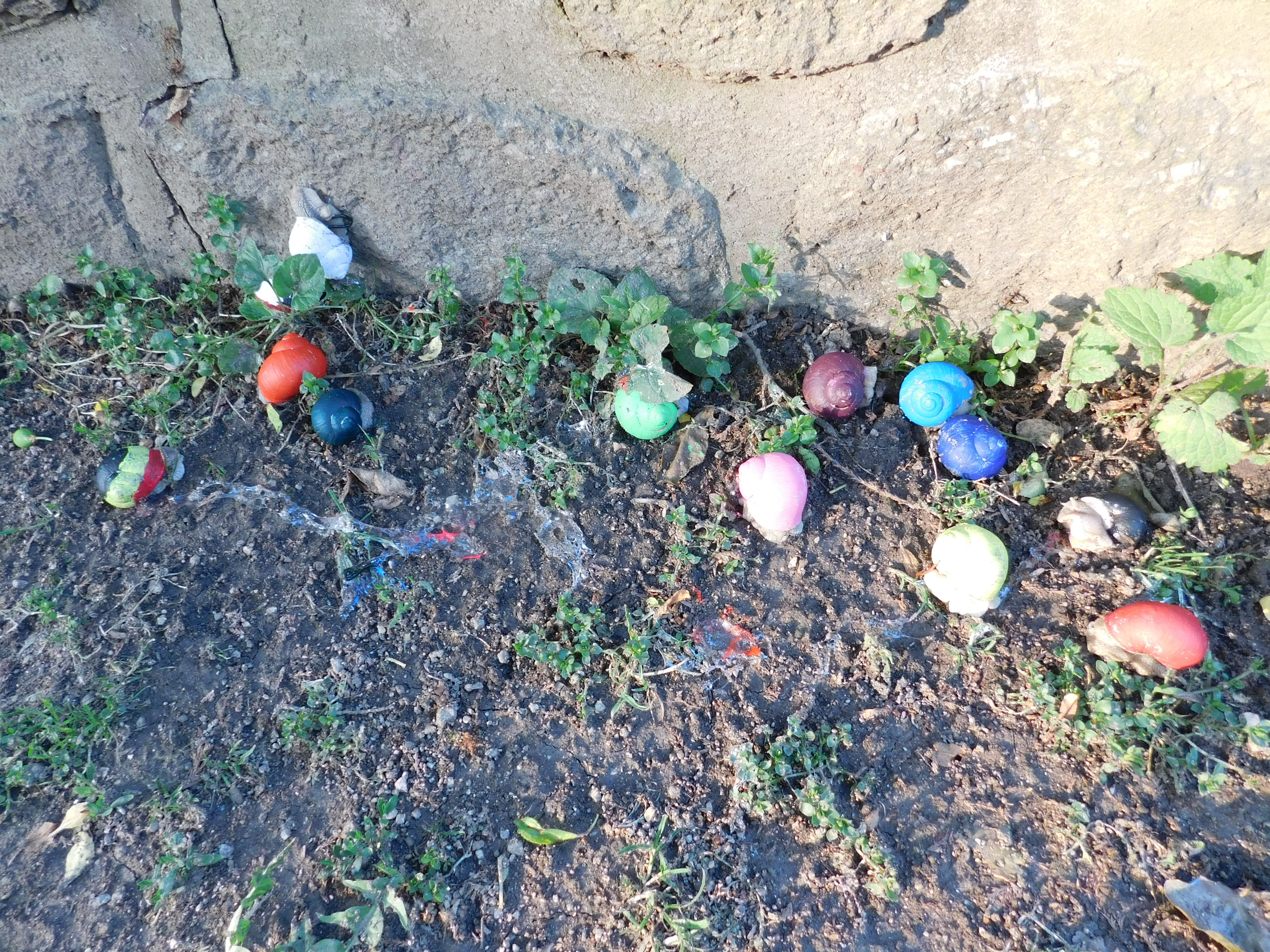 Colored roman snails